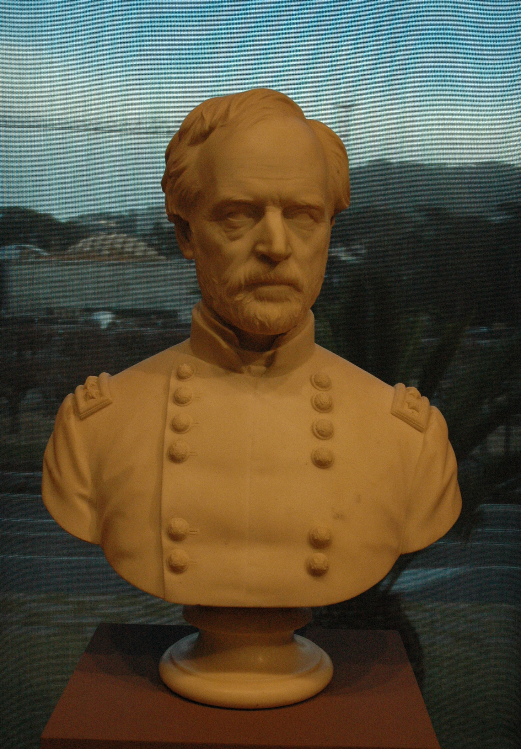 From the collection of the Young Museum in San Francisco, CA.